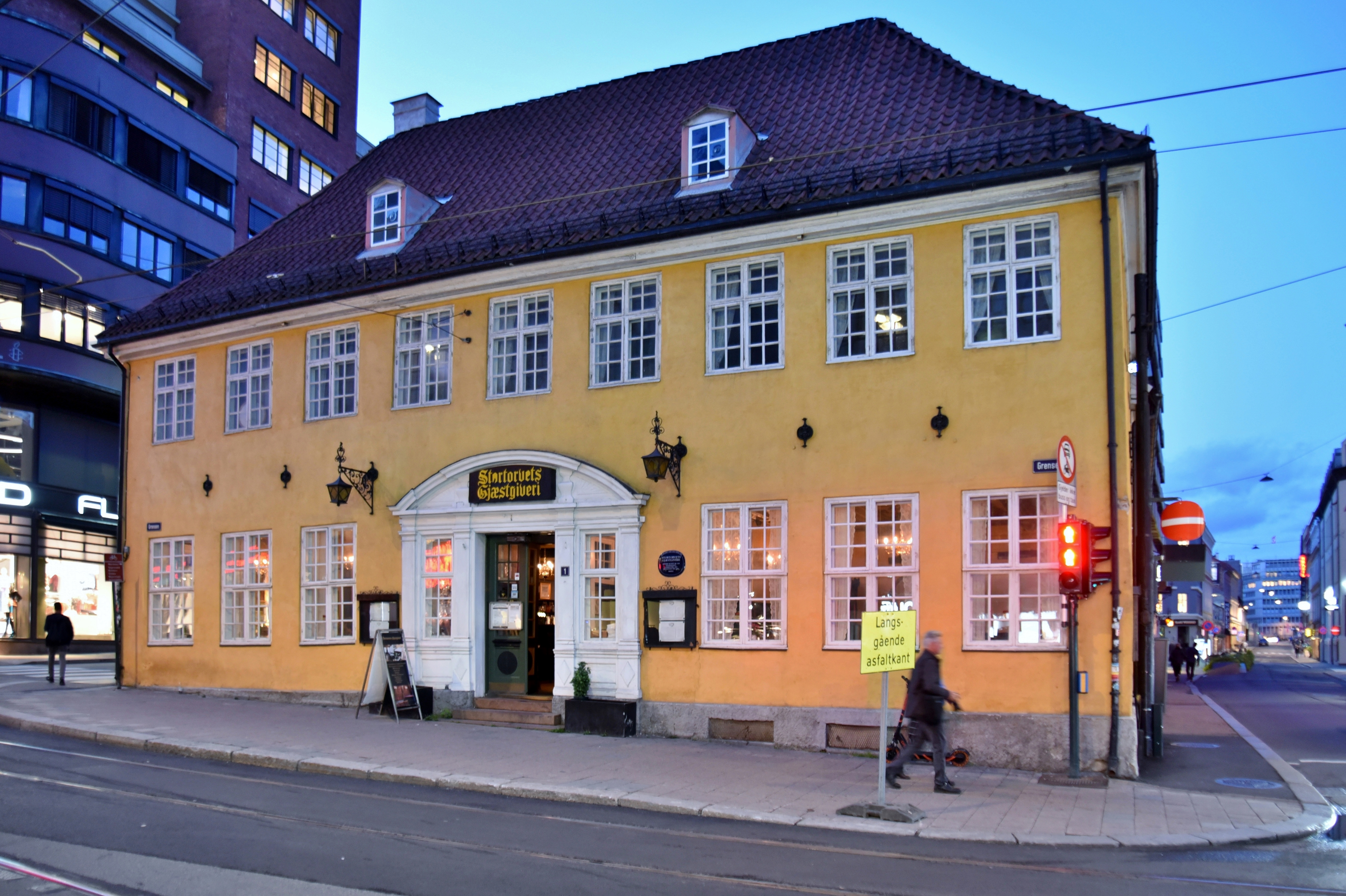 Night view of the Stortorvets Gjæstgiveri building, Grensen, Oslo, Norway